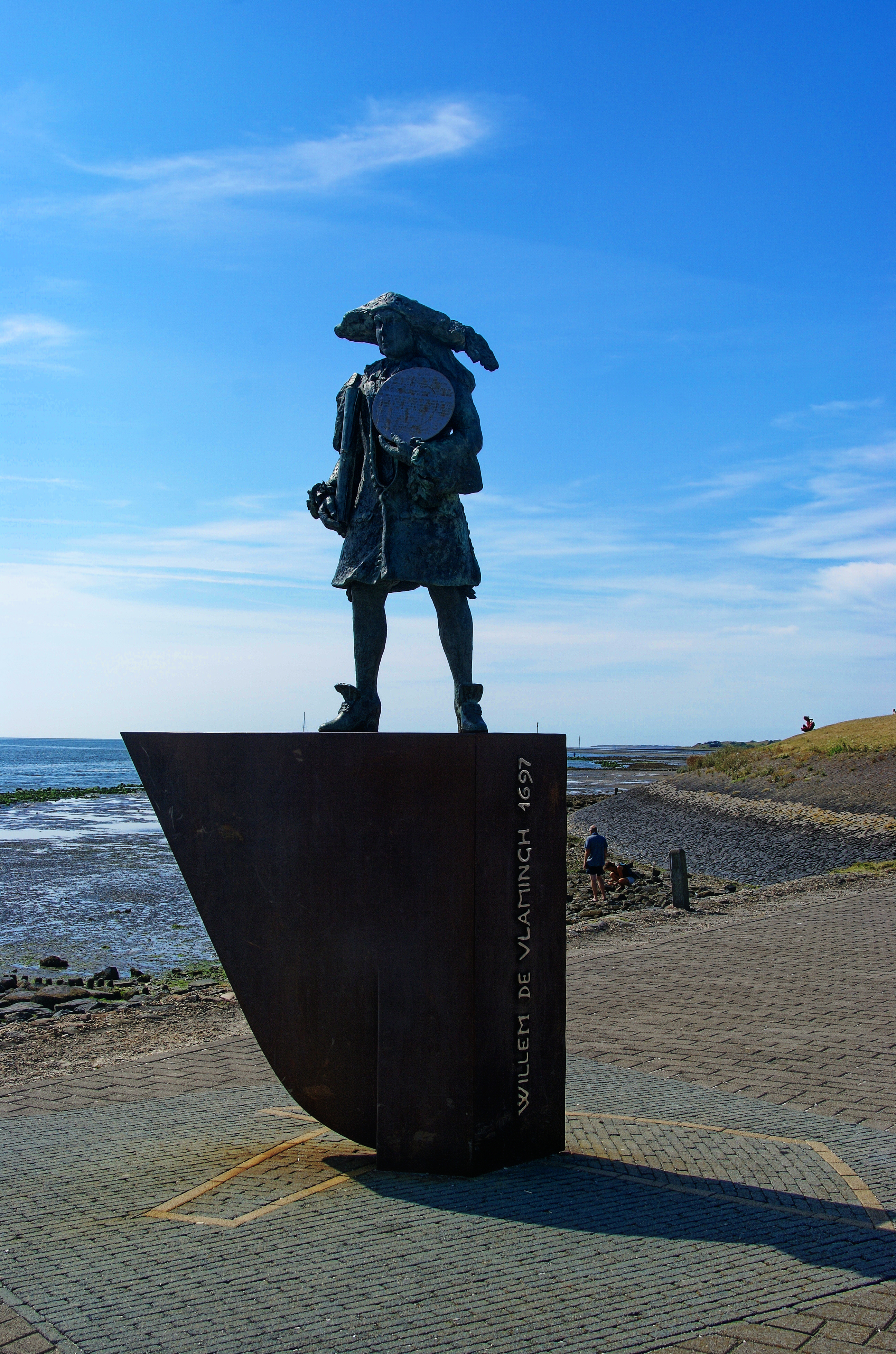 Oost-Vlieland - Willem de Vlamingh 1697 - View WSW